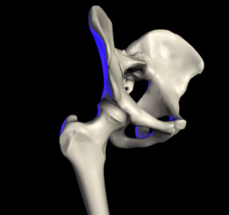 Hip bones. Image by Stephen Woods (me)